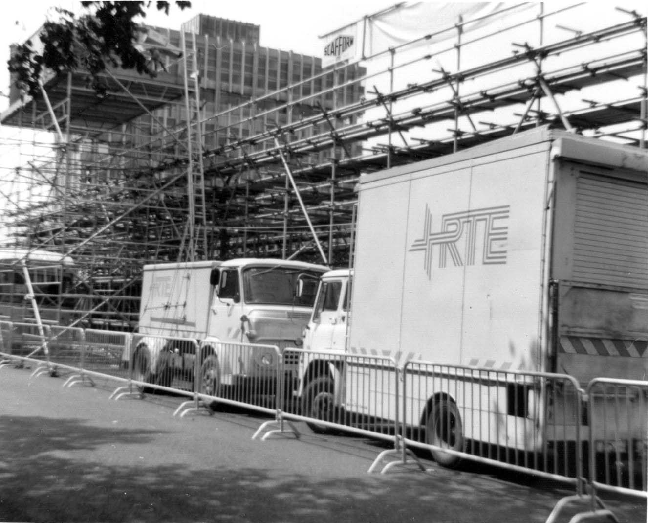 RTE (Dublin, Ireland) Outside Broadcast Vehicles, 1970's